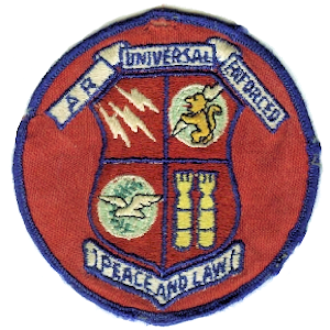 Emblem of the 329th Bombardment Squadron (SAC)